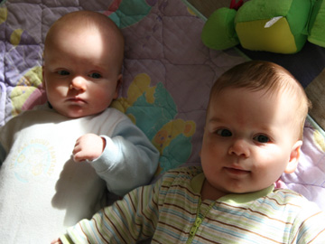 Our children